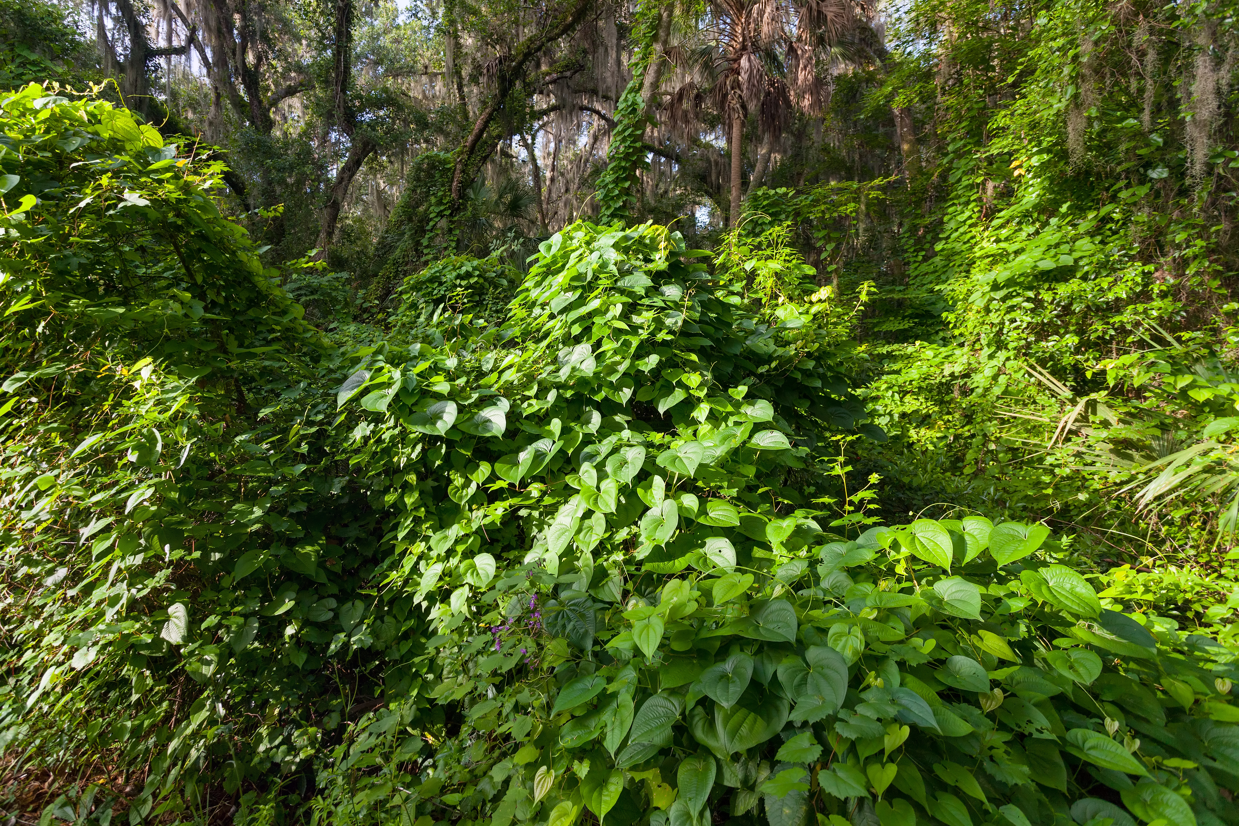 Green Springs, Enterprise, Florida. Invasive air potato vine (Dioscorea bulbifera) growing in the hammock.